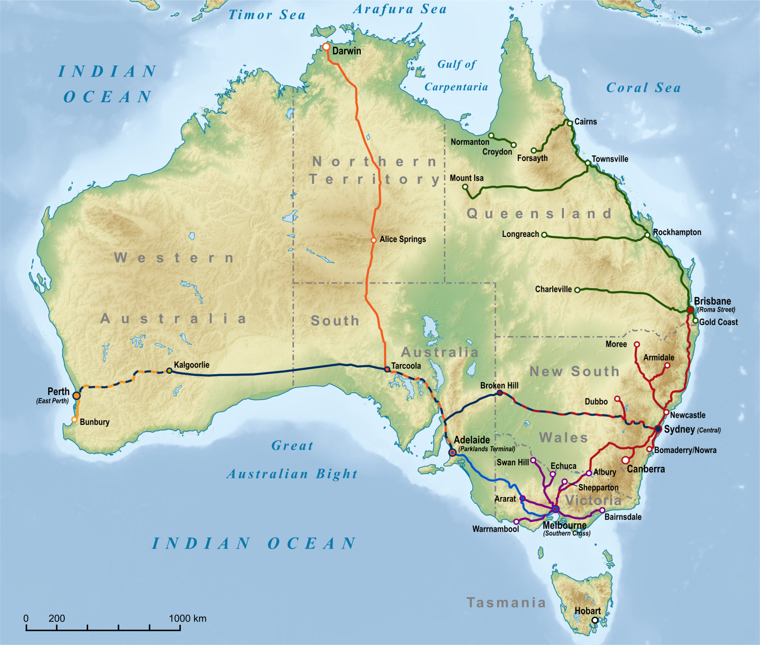 Map of the Passenger rail services in Australia. State Government owned rail services Queensland Rail Traveltrain and City services (Queensland). Sydney Trains and NSW TrainLink services (New South Wales). V/Line services (Victoria). Transwa services (Western Australia). Great Southern Railway lines Indian Pacific The Overland The Ghan